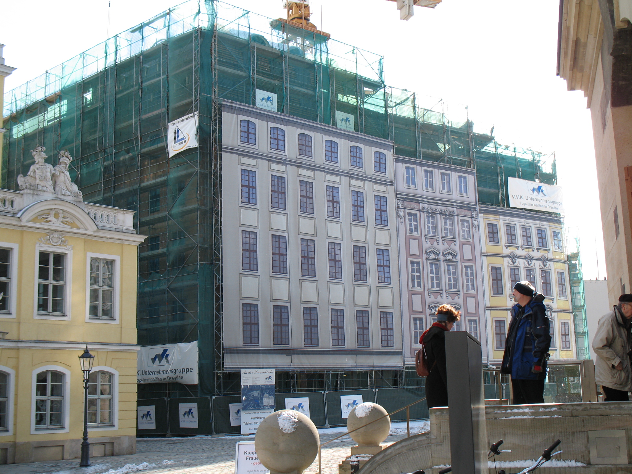 Dresden, Germany: Reconstruction of historical buildings. An der Frauenkirche 13, 14. Facade towards Rampische Strasse.